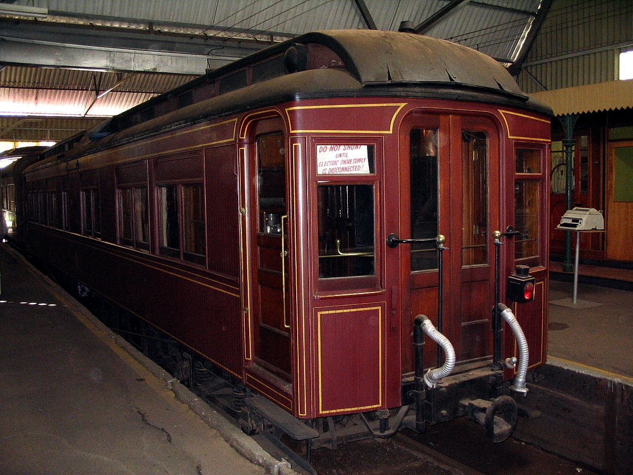 Purchased in 1896 by de Beers Consolidated Mines Ltd., from Pullman Palace Company, Chicago, USA. Presented to the Rhodesia Railways in 1944.